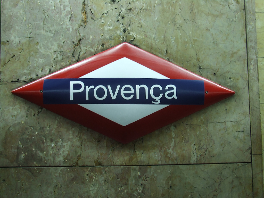 A poster of a station in Barcelona, Catalonia